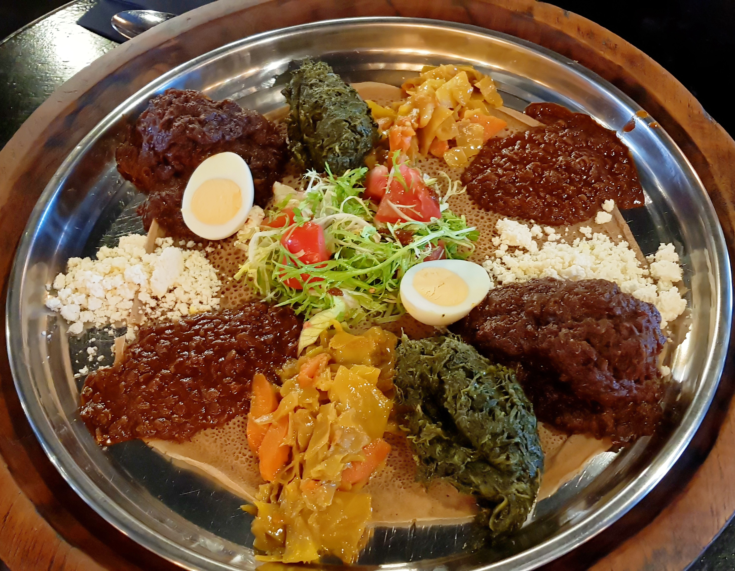 A formal serving of wat atop injera in Brussels, Belgium